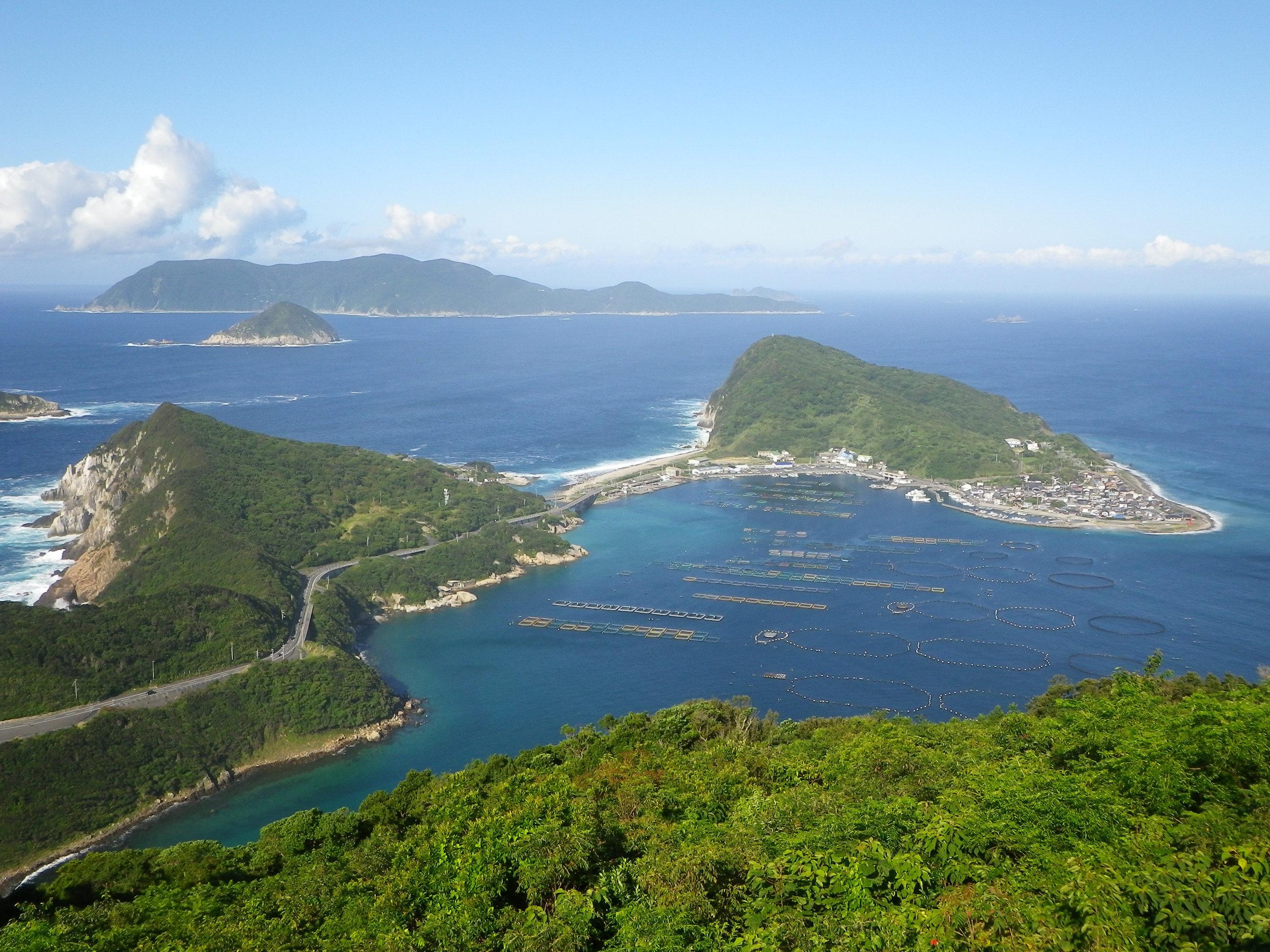 Tosa_Okinoshima_Island